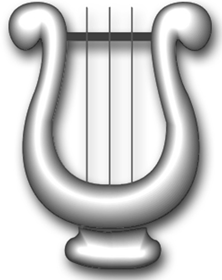 US Navy Musician (MU). A lyre.